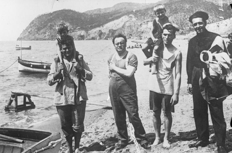 The Italian leader's brother Arnaldo Mussolini (middle), at a beach of the Mediterranean Sea.